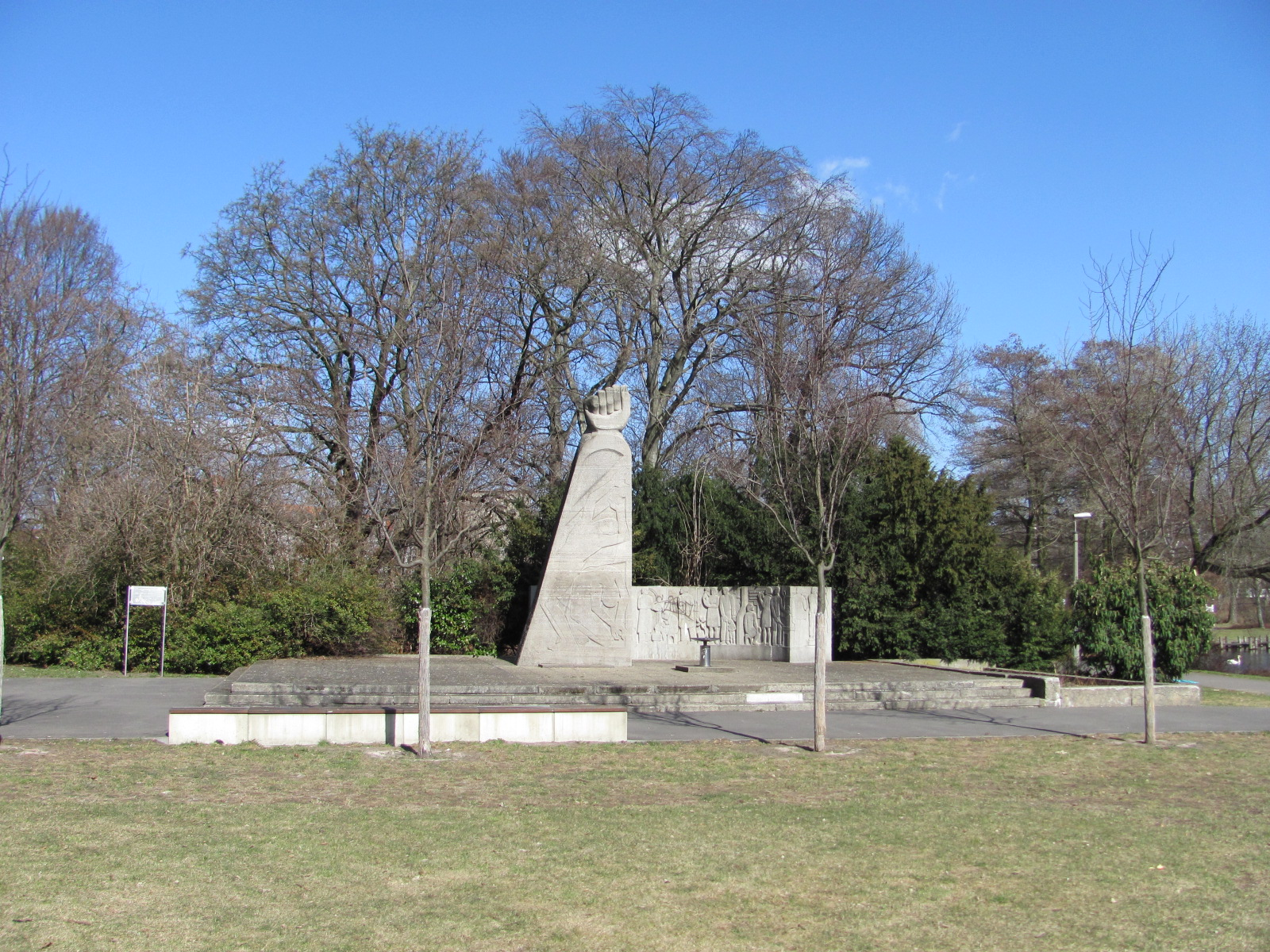 Memorial, Köpenicker Blutwoche, Platz des 23. April , Berlin-Köpenick, Germany